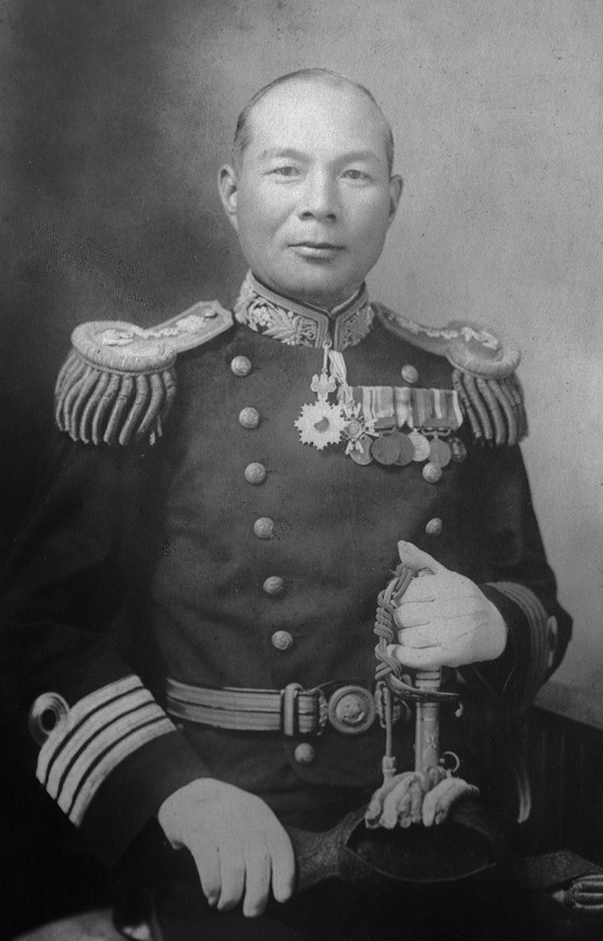 Vice Admiral Matome Ugaki